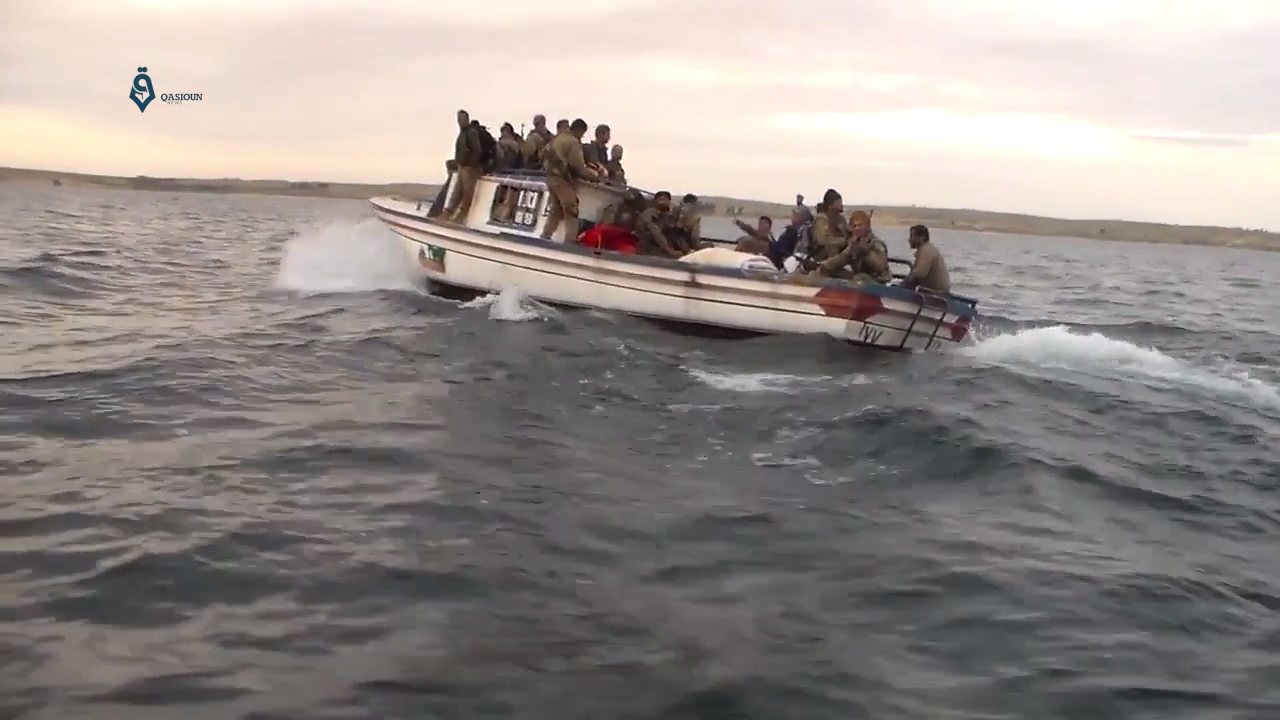 A boat carrying fighters of the Syrian Democratic Forces cross Lake Assad.